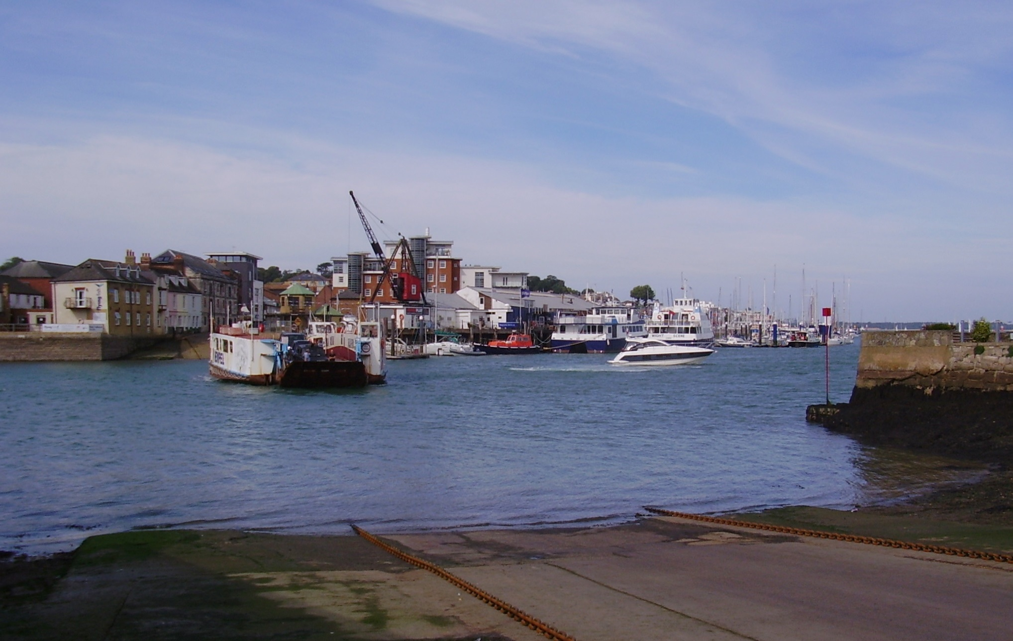 River Medina at its mouth at Cowes, Isle of Wight, UK, looking from the east bank to the west, also showing the chain ferry